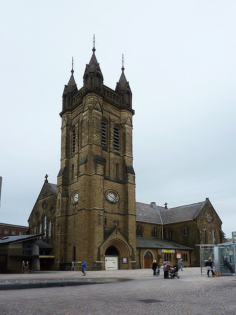 The church of St John the Evangelist, Church Street, Blackpool, Lancashire, England